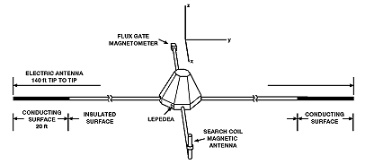 Explorer 52 (Hawkeye) Satellite